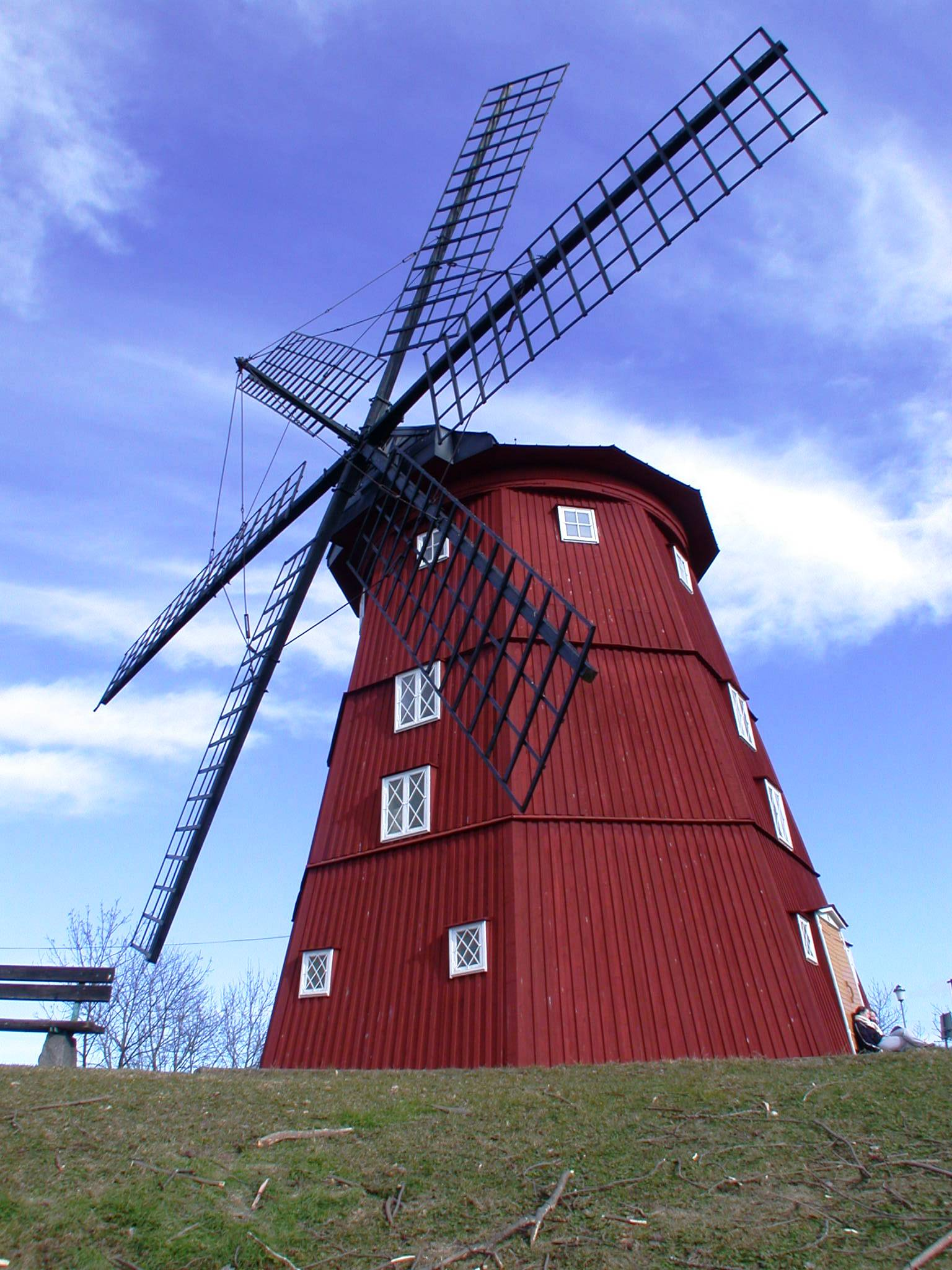 The wind mill on Lurudden, Strängnäs, Sweden. Photo by (WT-shared) Riggwelter, March 10, 2007. Was in category Strängnäs on wikivoyage